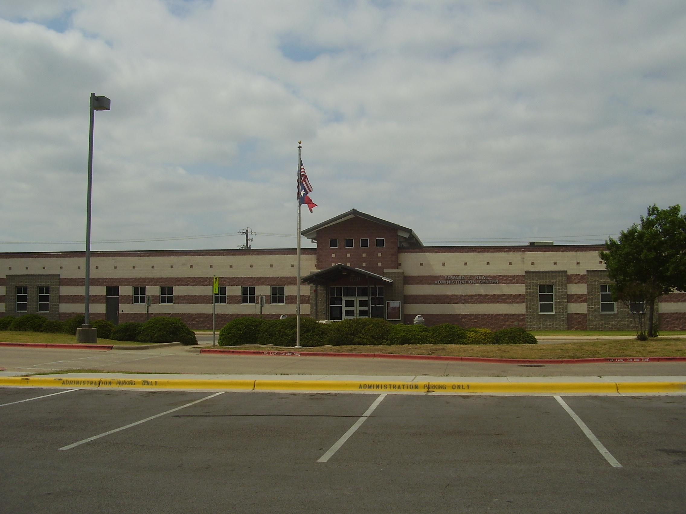 Edward A. Neal Administration Building, the headquarters of the Del Valle Independent School District